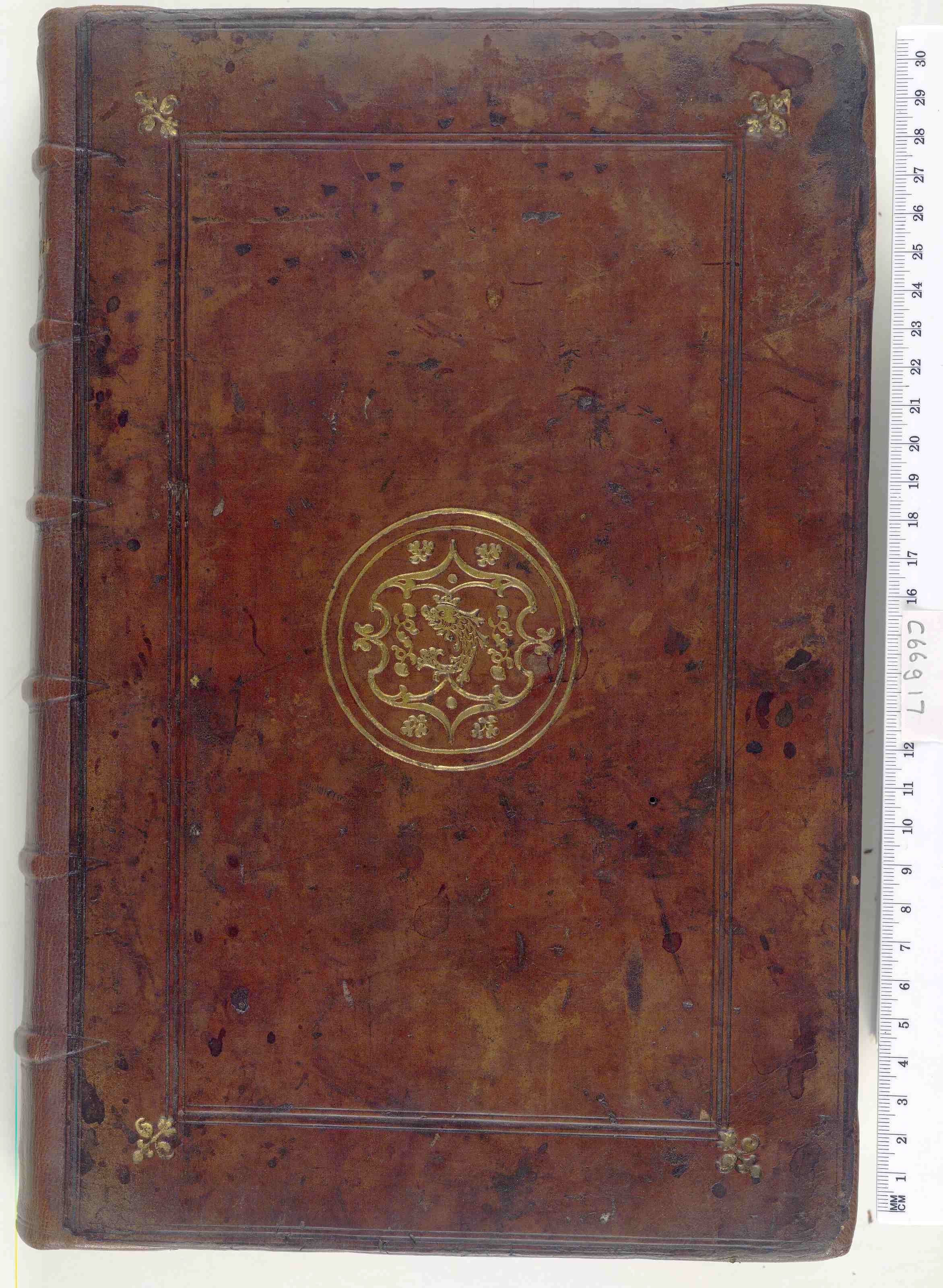 Style: Circle|Dolphin motif; Caption: Upper cover; Colour: Brown; Edge: Unspecified